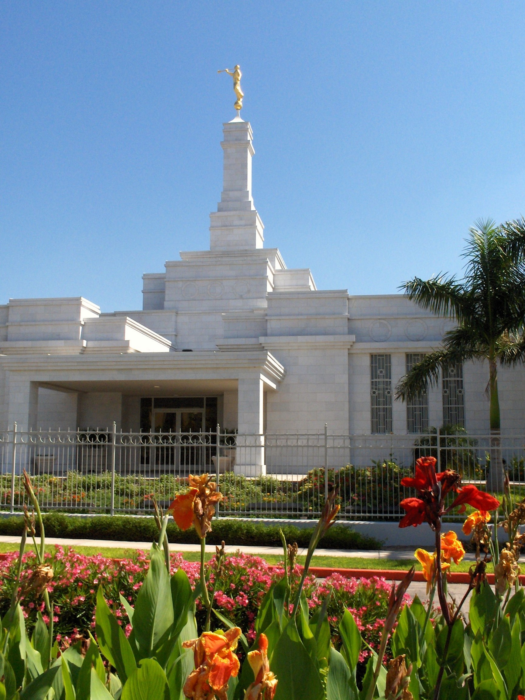 The Hermosillo Sonora México Temple of The Church of Jesus Christ of Latter-day Saints.